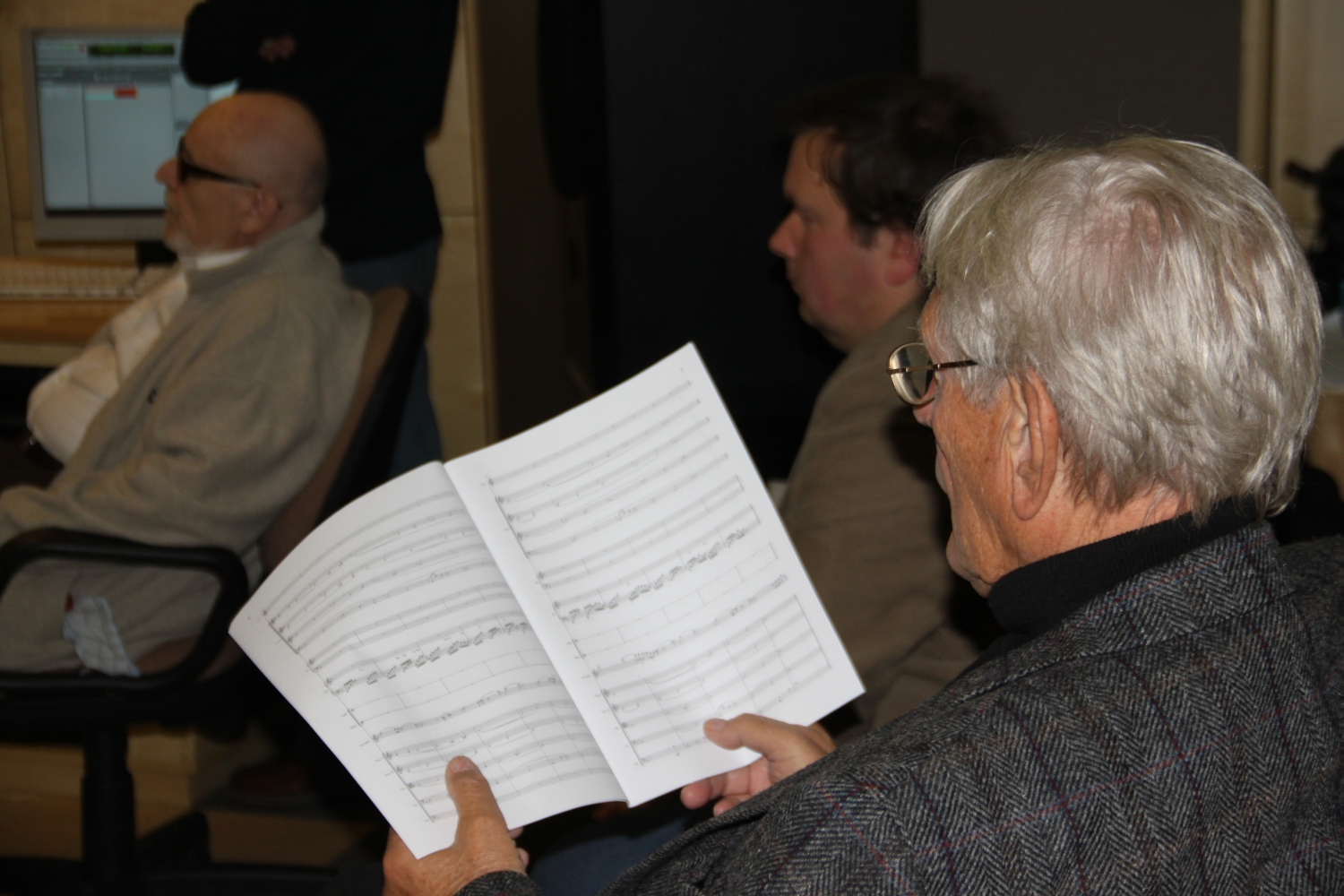 Vadim Petrov reading music notes